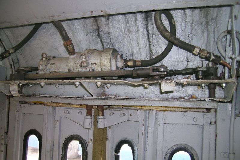 The air-assisted door gear in MTB-82 trolleybus